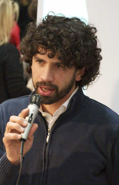 Former football player Damiano Tommasi during an interview @ Fa la cosa giusta exhibition